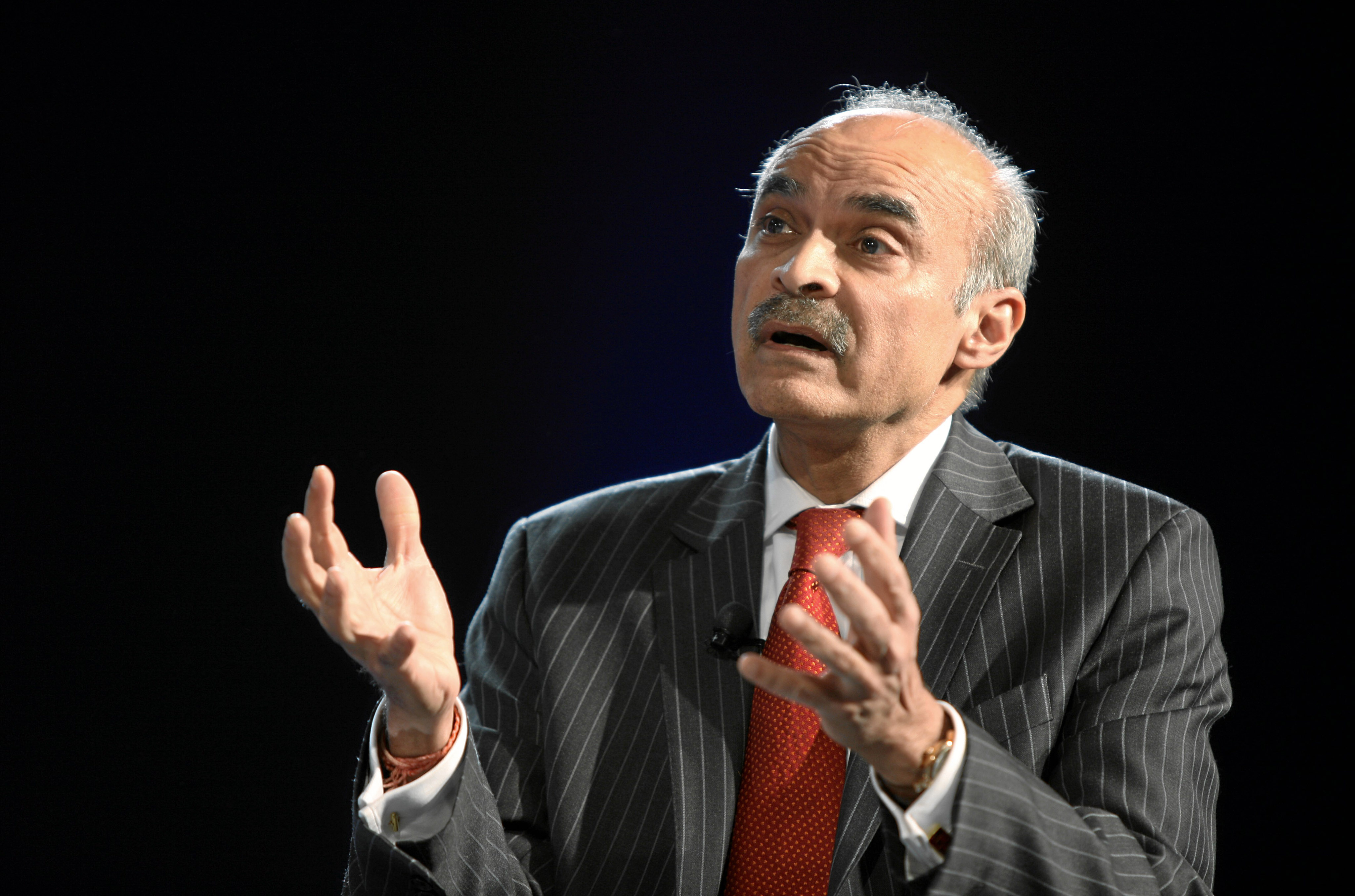 DAVOS/SWITZERLAND, 28JAN10 - Manvinder S. Banga, President, Foods, Home and Personal Care, Unilever, United Kingdom captured during the session 'Will India Meet Global Expectations?' at the Congress Centre at the Annual Meeting 2010 of the World Economic Forum in Davos, Switzerland, January 28, 2010.. . Copyright by World Economic Forum. by Sebastian Derungs.